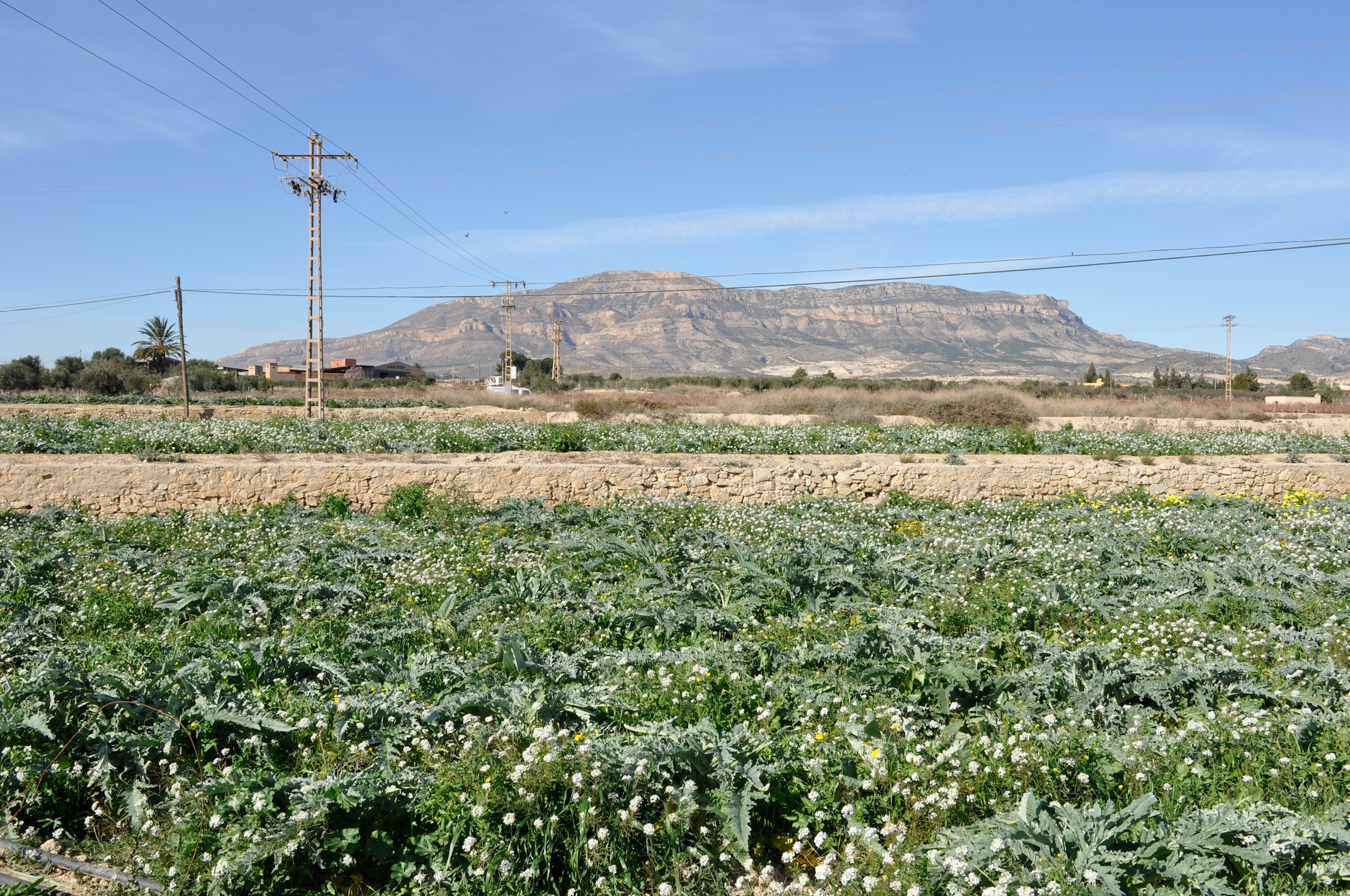 Agost, Alicante.